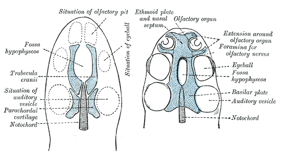 Diagrams of the cartilaginous cranium. (Wiedersheim.)